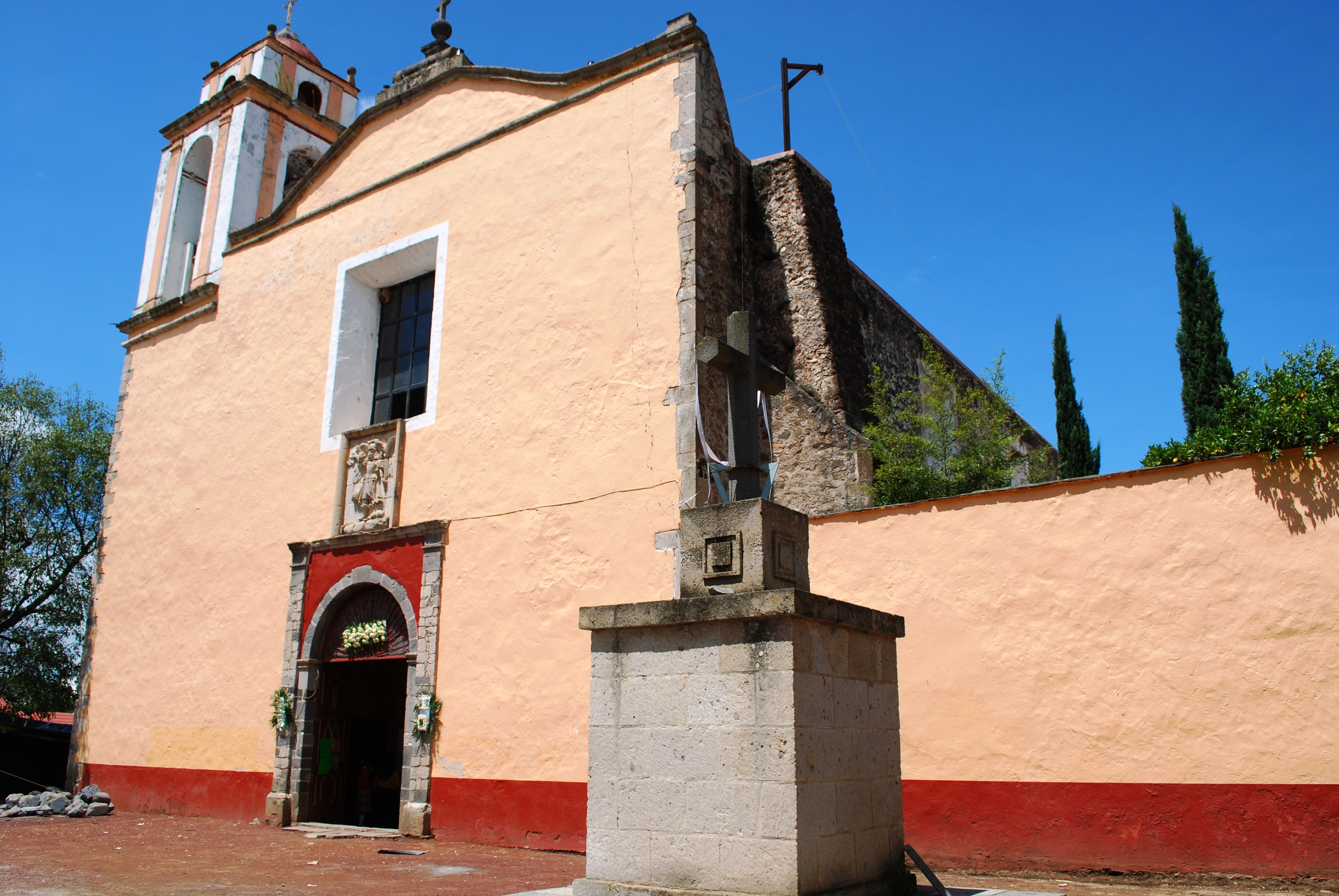 Facade of San Juan Bautista Parish in Huasca de Ocampo, Hidalgo, Mexico